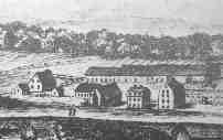 A drawing of the Moravian community of single brothers at Christiansbrunn, Pennsylvania, part of the Nazareth Tract.